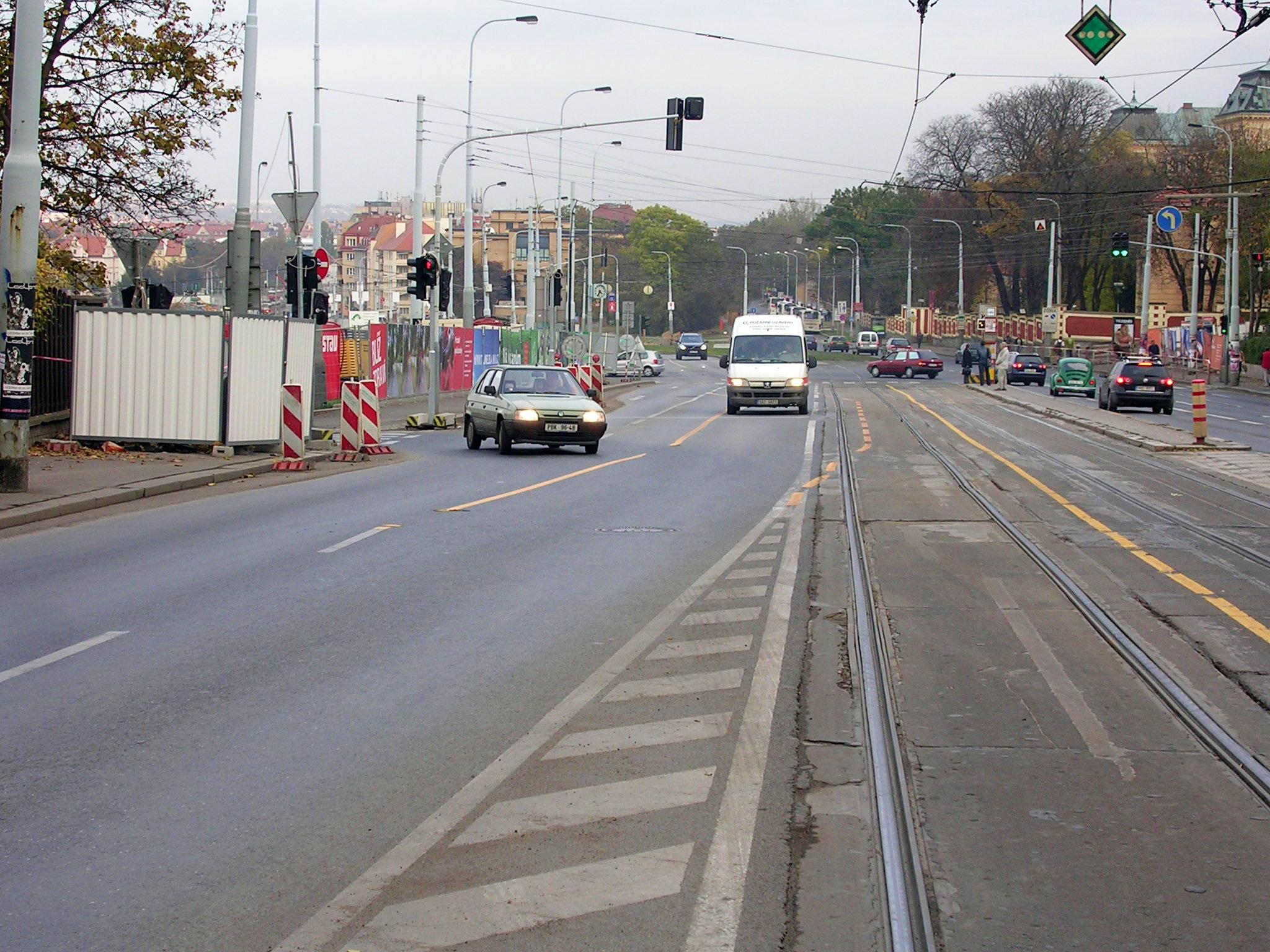 Střešovice, Prague, the Czech Republic.